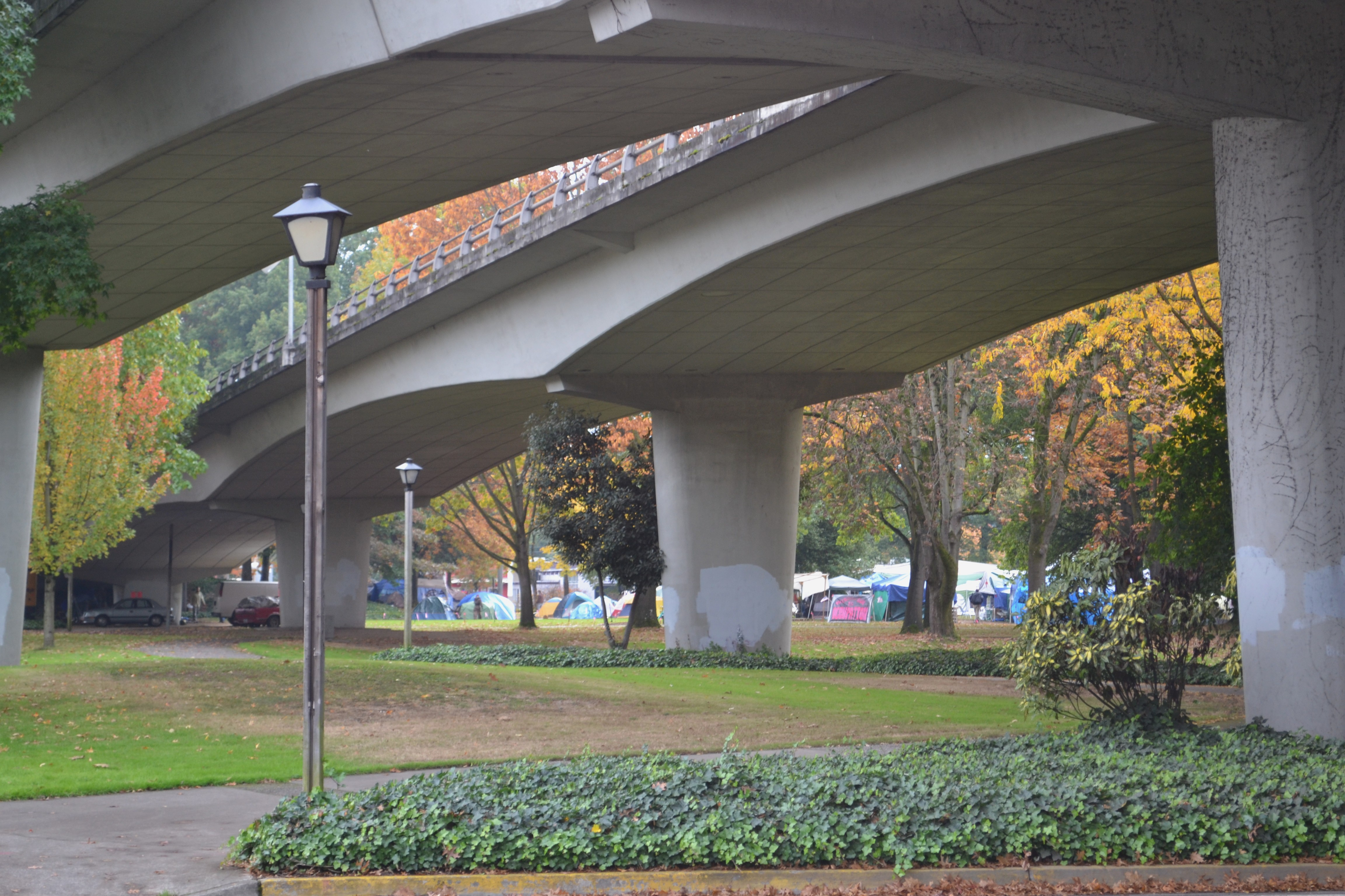 Occupy Eugene Under the Washington-Jefferson Street Bridge (Eugene, Oregon)